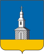 Yurievets (Ivanovo oblast), coat of arms